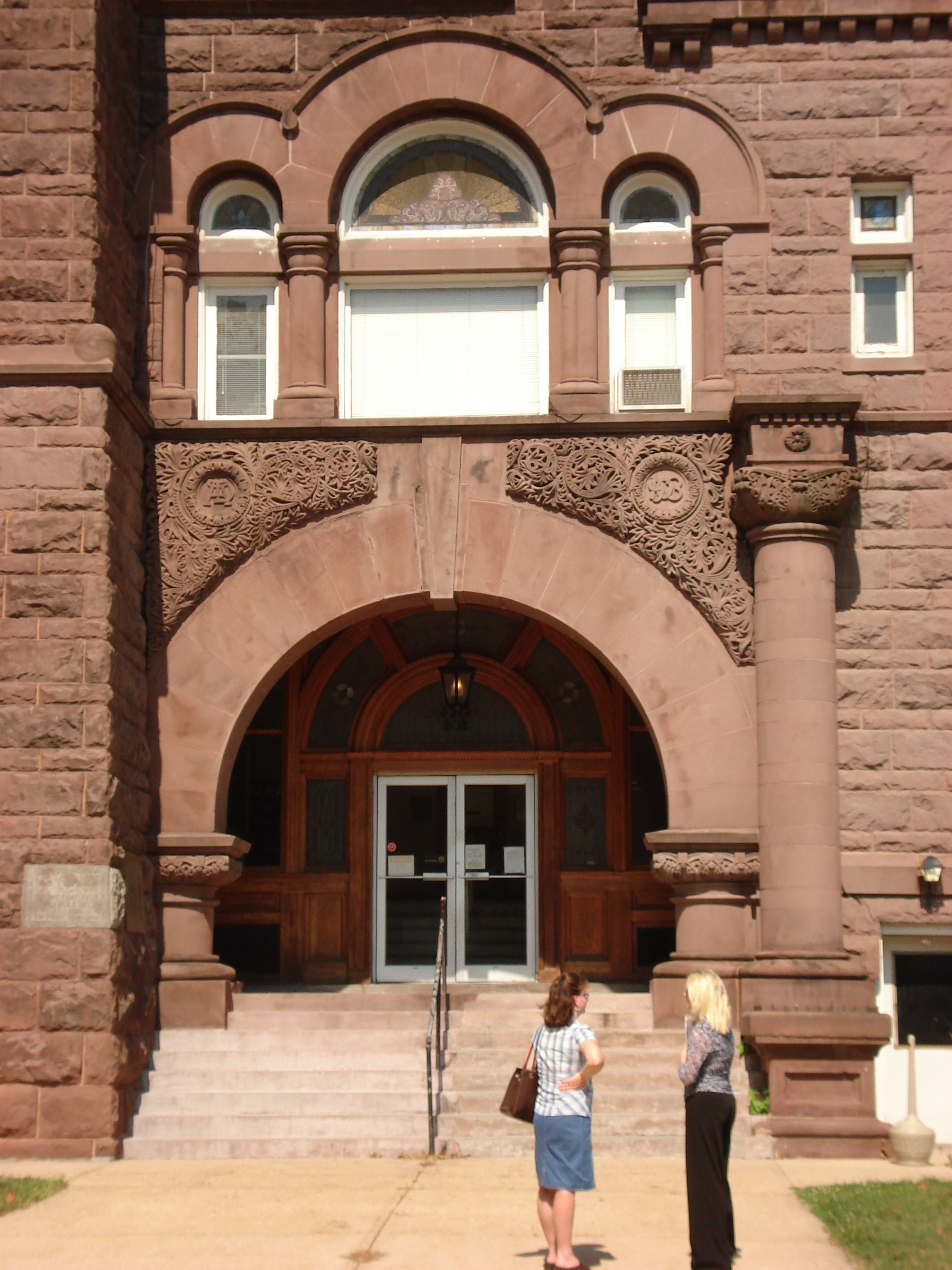 Main entrance portal, Barbour County Courthouse (1903-05) in Philippi, West Virginia, USA.